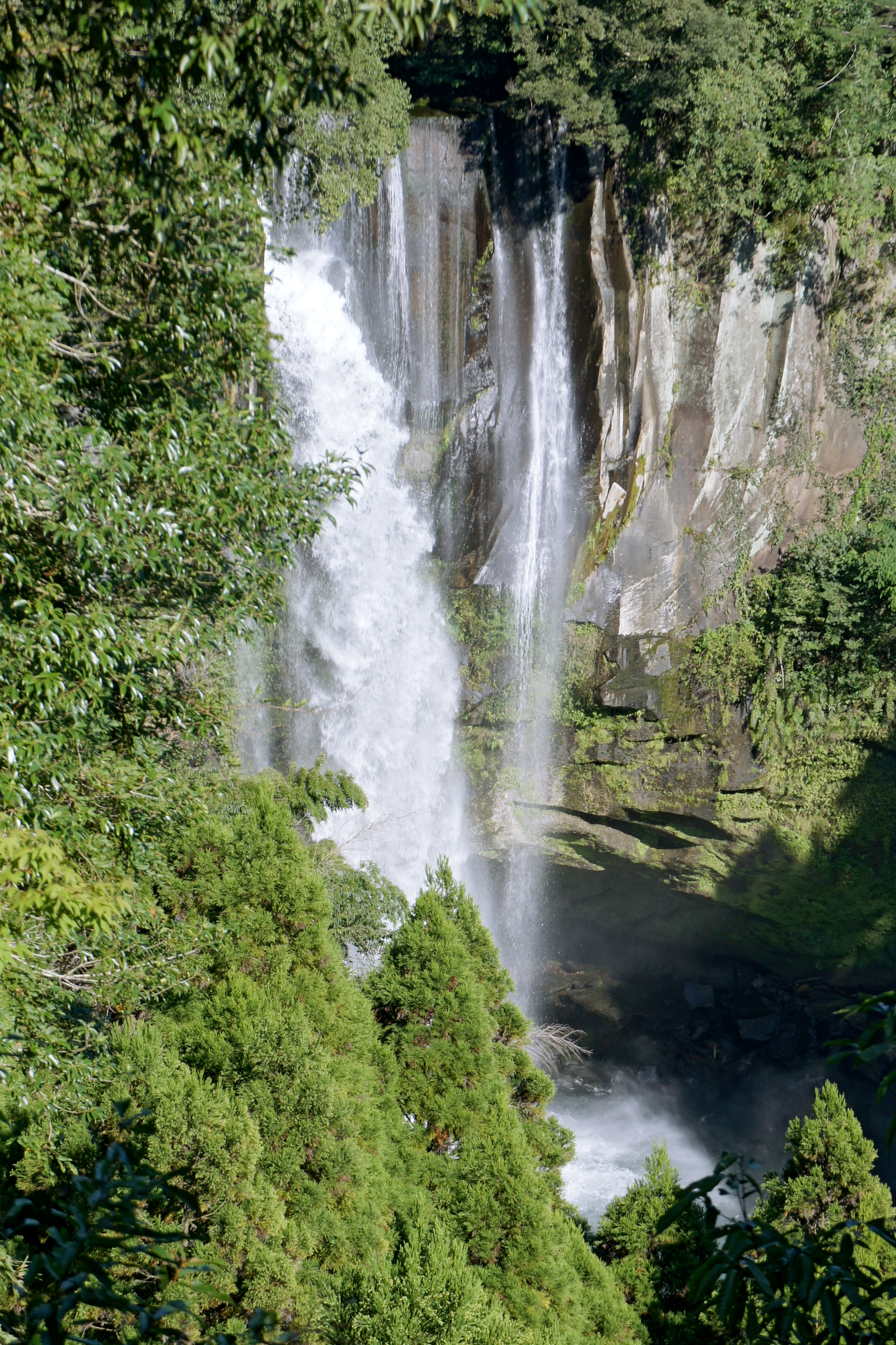 Inukai Falls in Kirishima, Kagoshima prefecture, Japan.